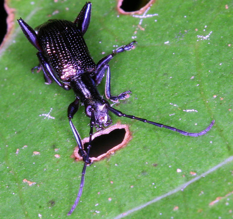 live specimen of Gnomodes piceus [identified by S.E. Thorpe, 2008, from image]. NOTE: leaf damage possibly not caused by this species